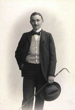 Danish banker Emil Rafael Glückstadt (1875-1923)